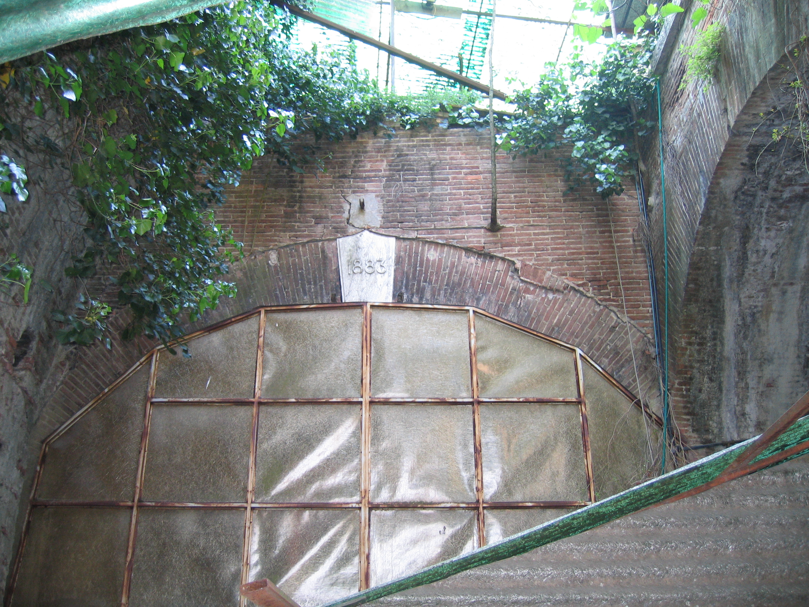 Stampace tunnel entry